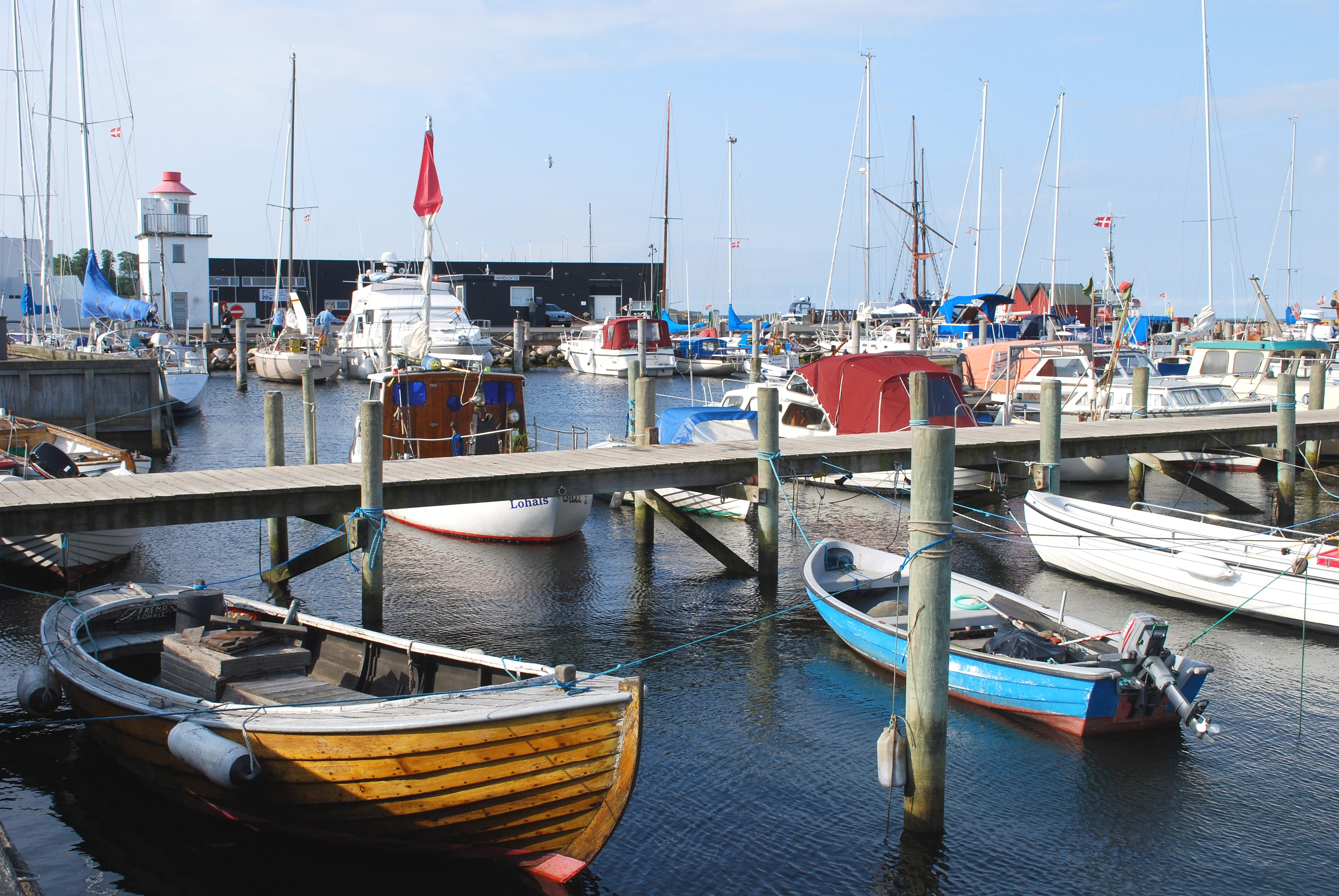 Harbour of Lohals, Langeland, Denmark